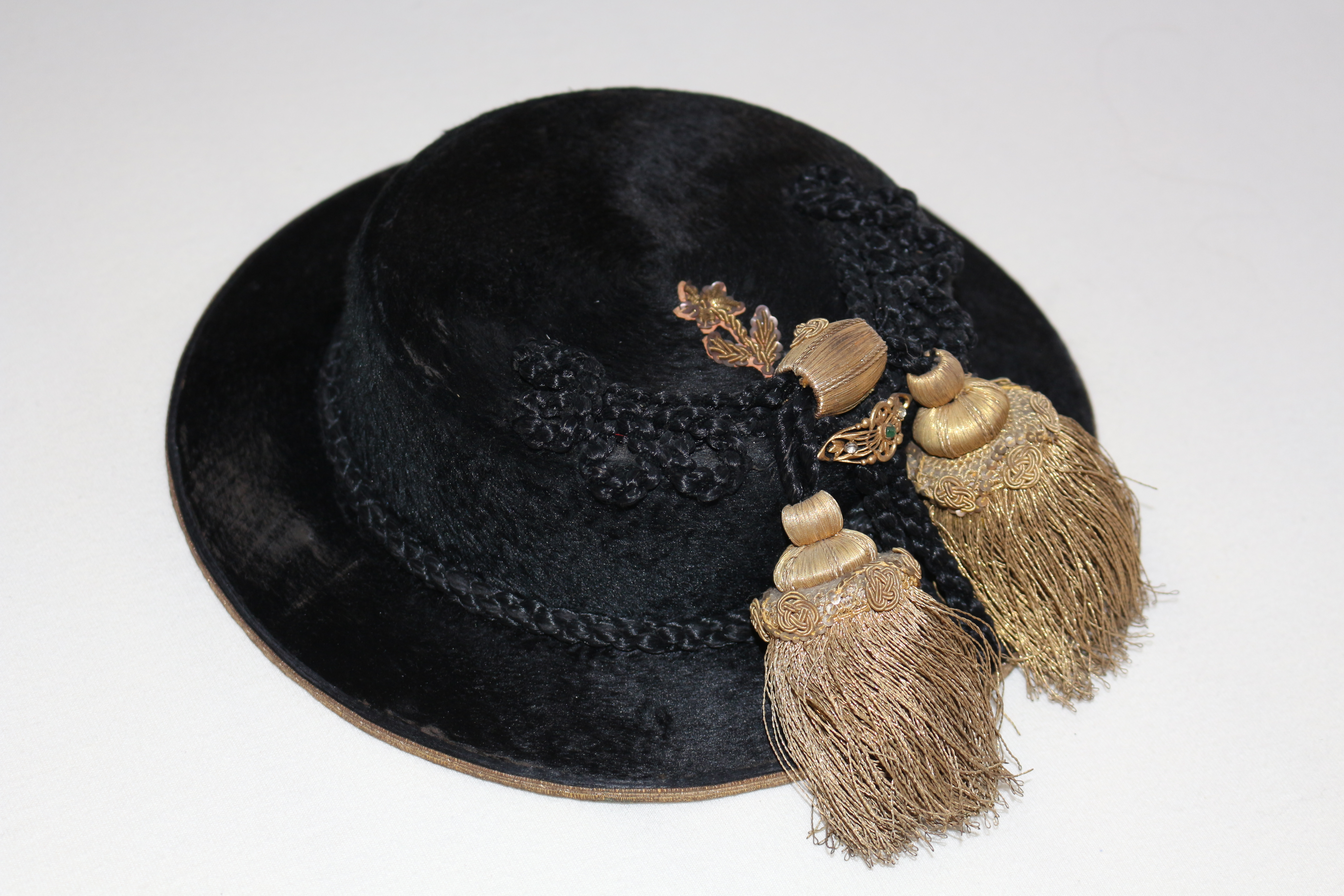 Priener hat, upper side, Traditional Hat from Upper Bavaria, made from Agathe Ecker, Traunwalchen, in the 1920s